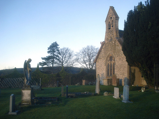 St Mary's Churchyard Looking north-west across the small churchyard and a fine sculpted gravestone to the clipped hedge of Elton Hall.